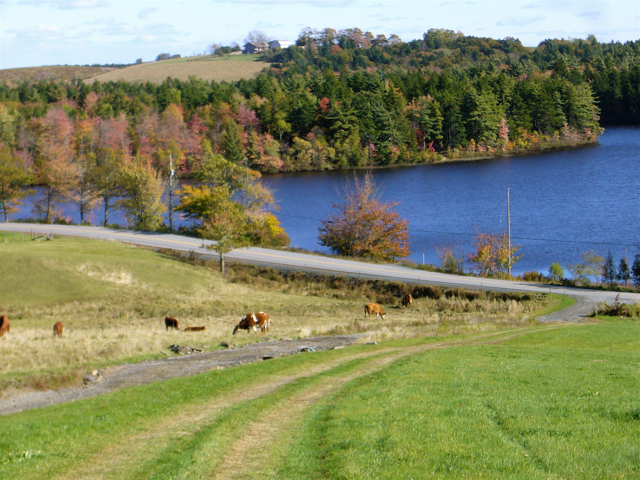 A view of the Isaac Wile Hill across Matthew Lake, Waterloo, Nova Scotia.